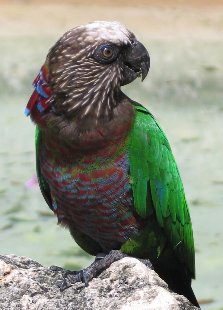 Red-fan Parrot (Deroptyus accipitrinus) standing on the ground.